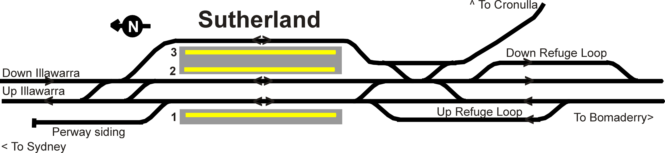 Track layout at Sutherland railway station prior to the duplication of the Cronulla line.